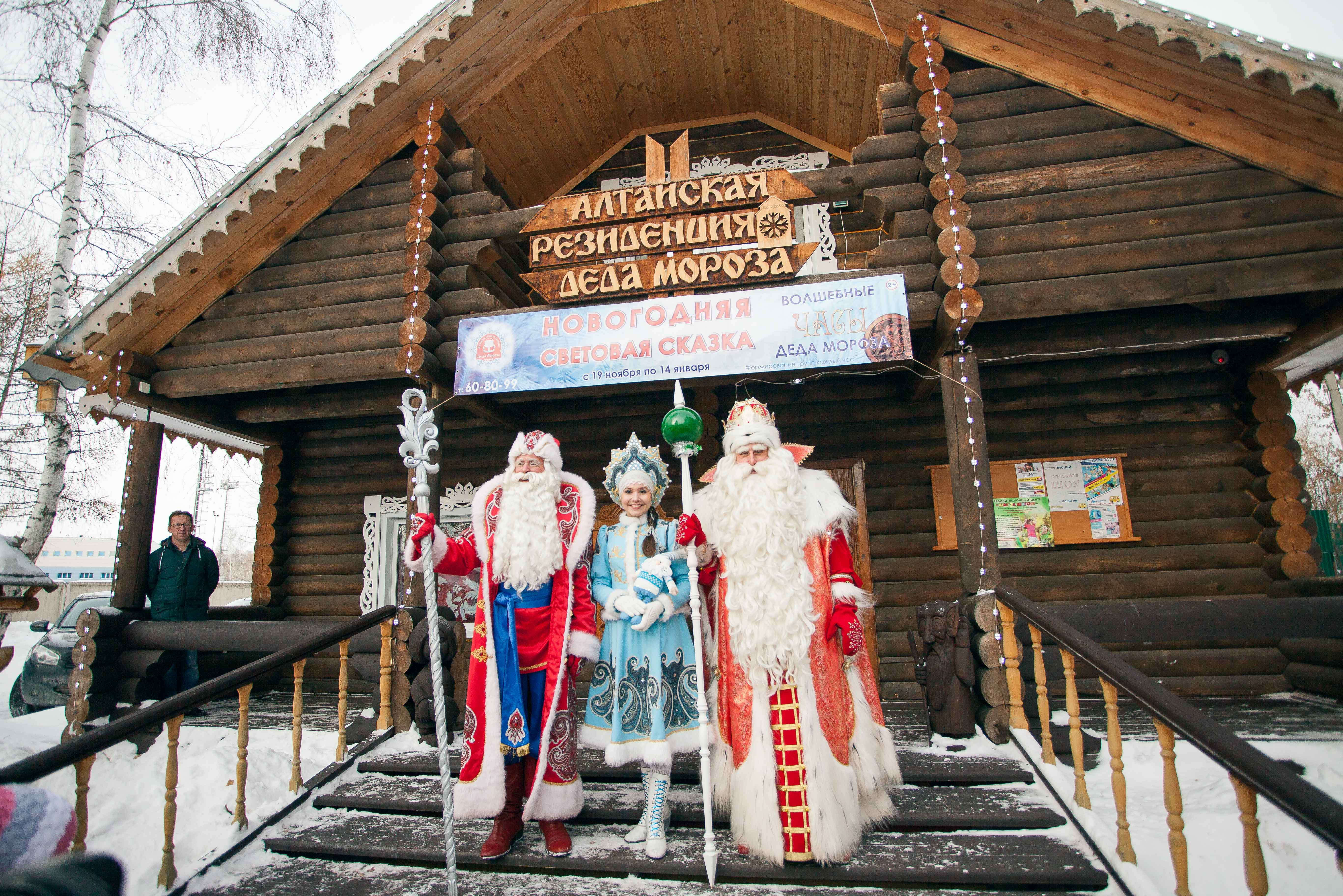 Российский Дед Мороз в гостях у Алтайского Деда Мороза